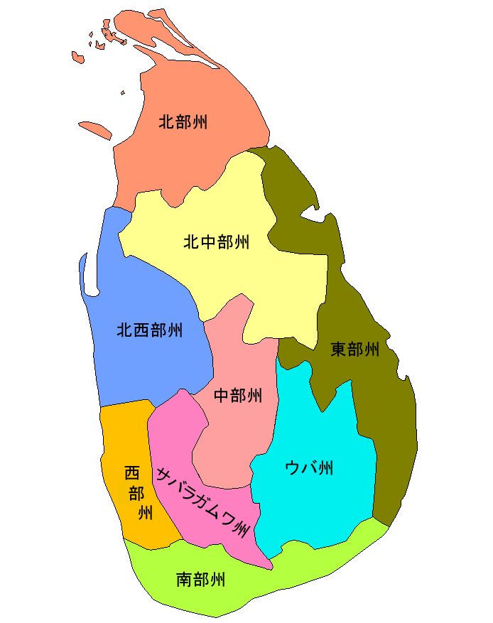 Map of the provinces of Sri Lanka in Japanese. Based upon Sri_Lanka_provinces.png from Wikipedia.